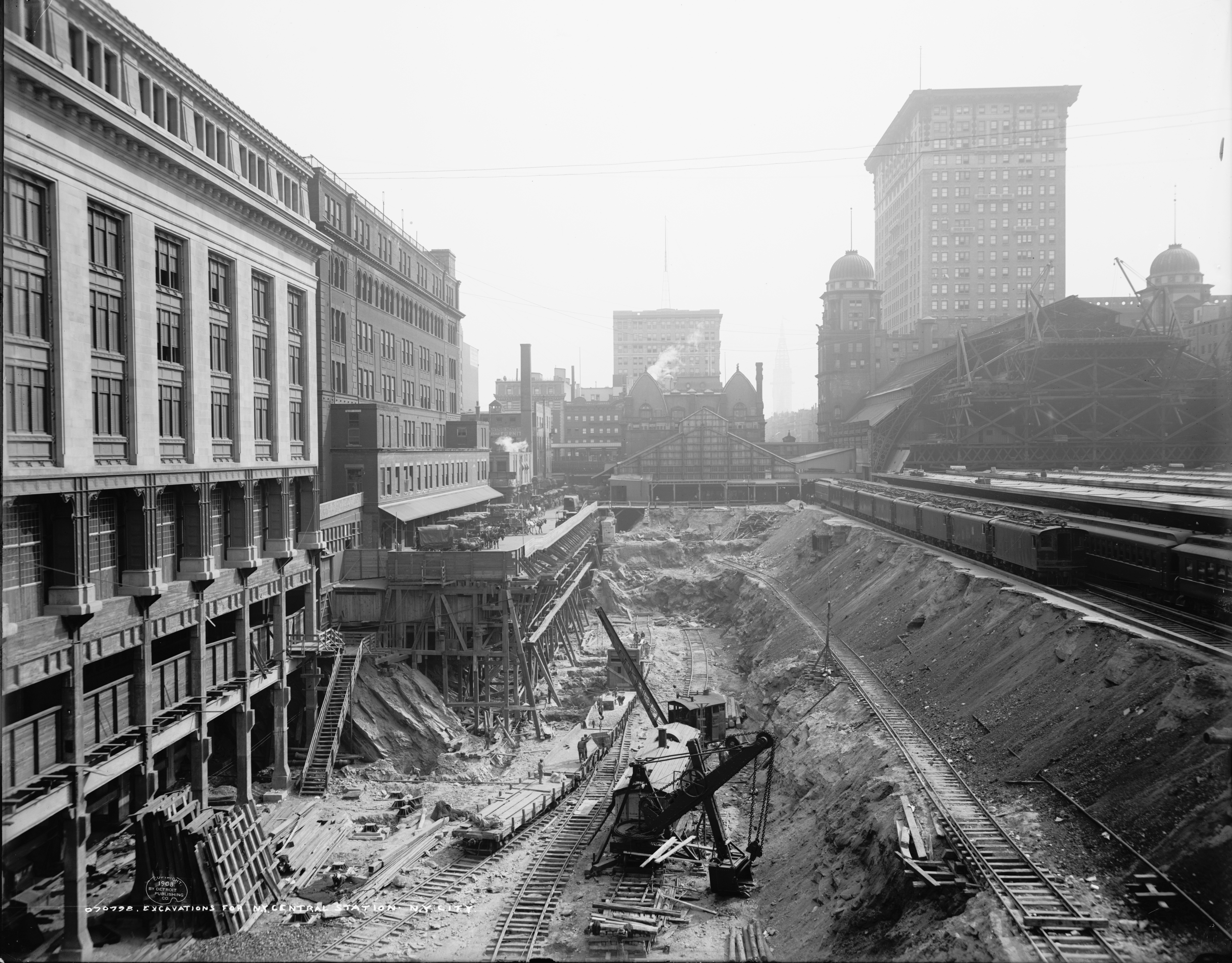 Excavations for N.Y. [Grand] Central Station, N.Y. City. Stamped with copyright 1908 on the lower-left corner of the image, and 'no known restrictions on publication' from the LOC.